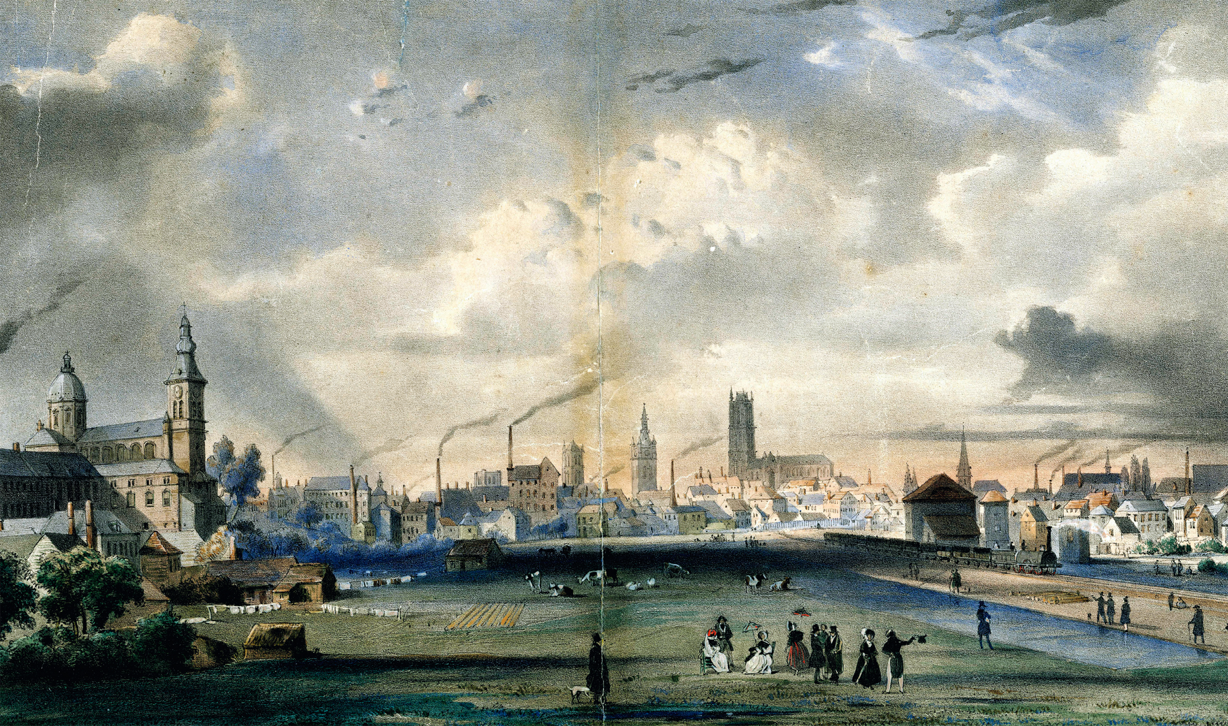 Zuid_1837.jpg